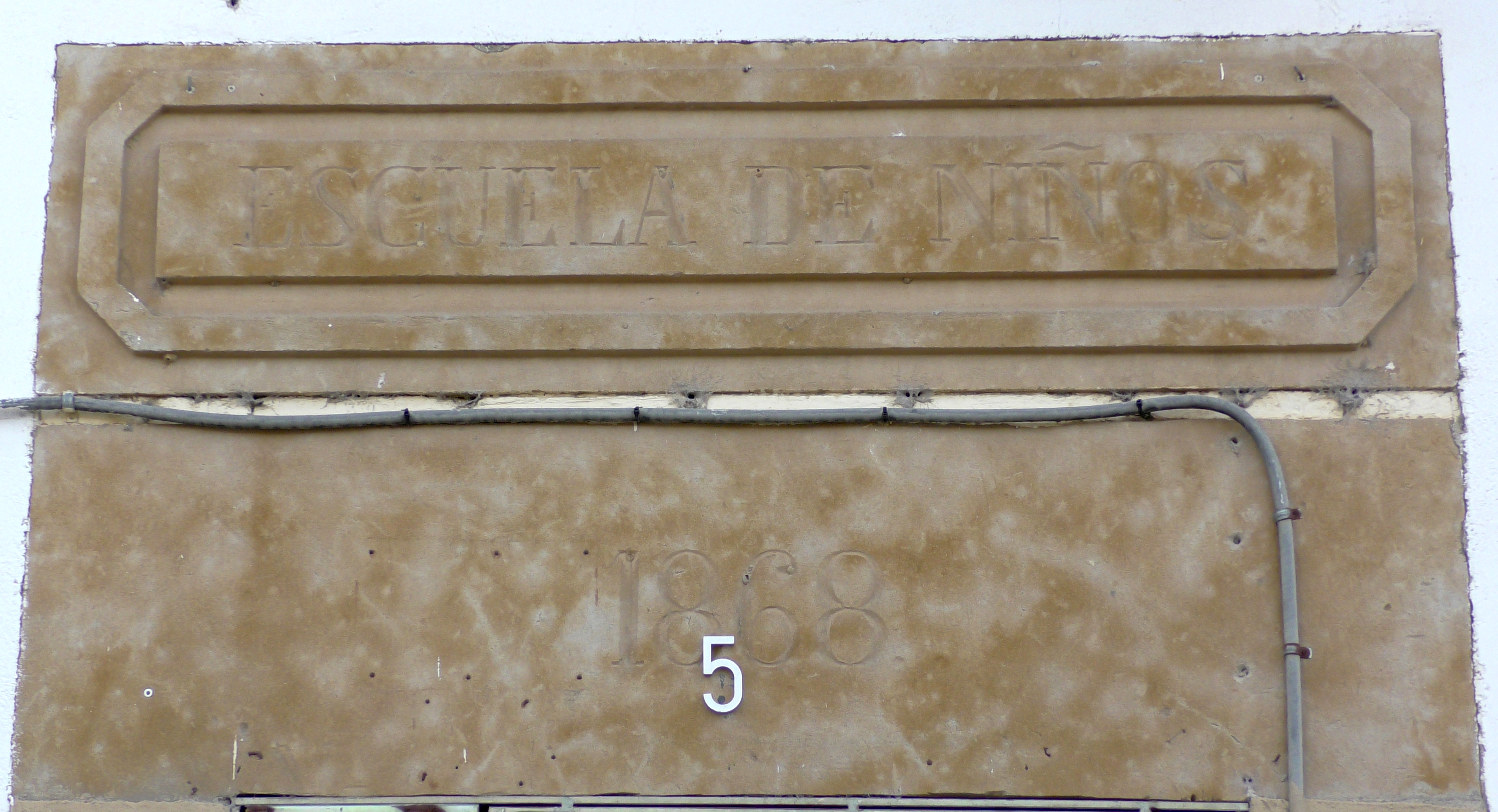 Actualmente se encuentra allí la farmacia